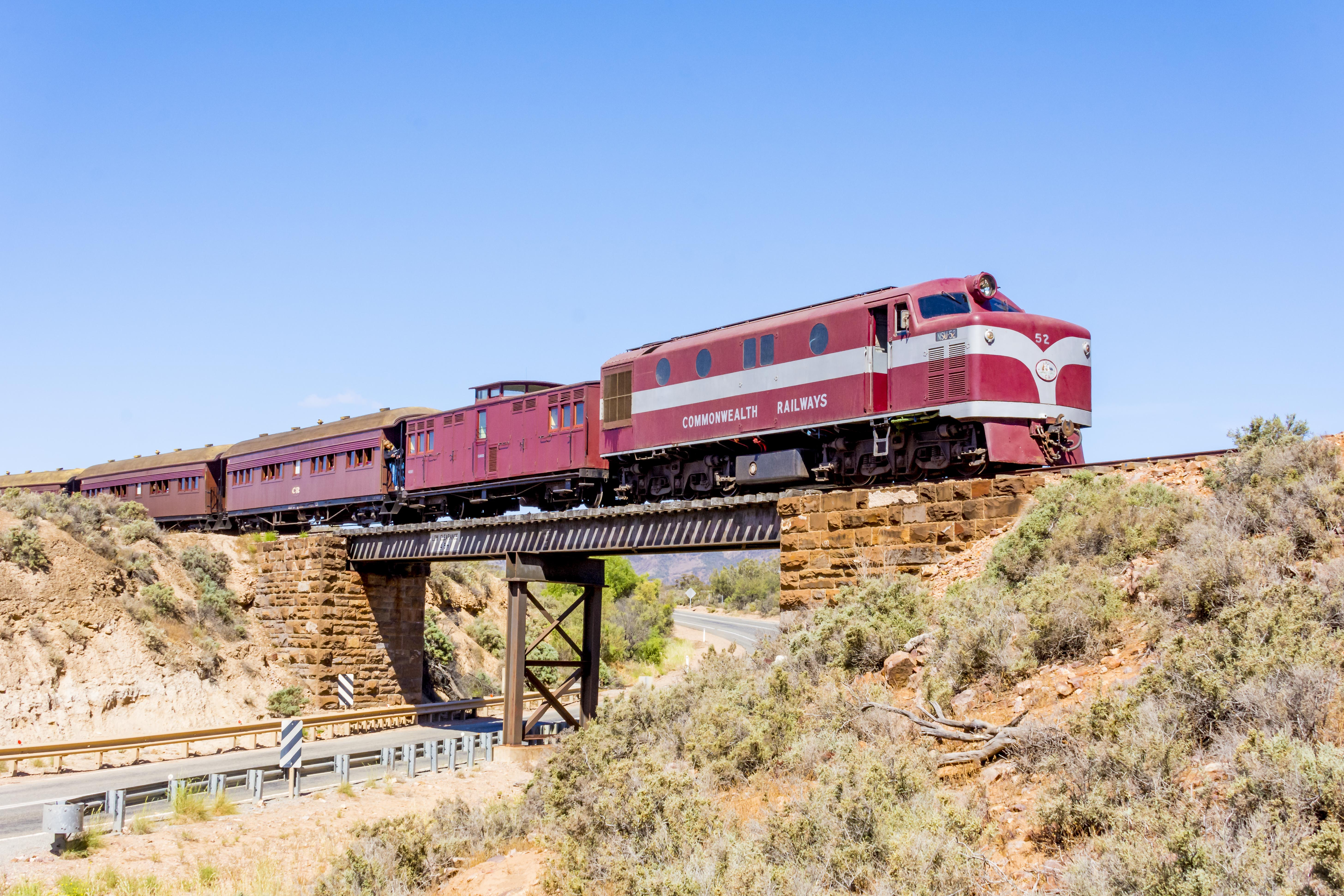 Restored former Commonwealth Railways diesel locomotive NSU52 crosses Saltia Bridge, near Quorn, South Australia, with a passenger train on 26 October 2019. It is owned by the Pichi Richi Railway.